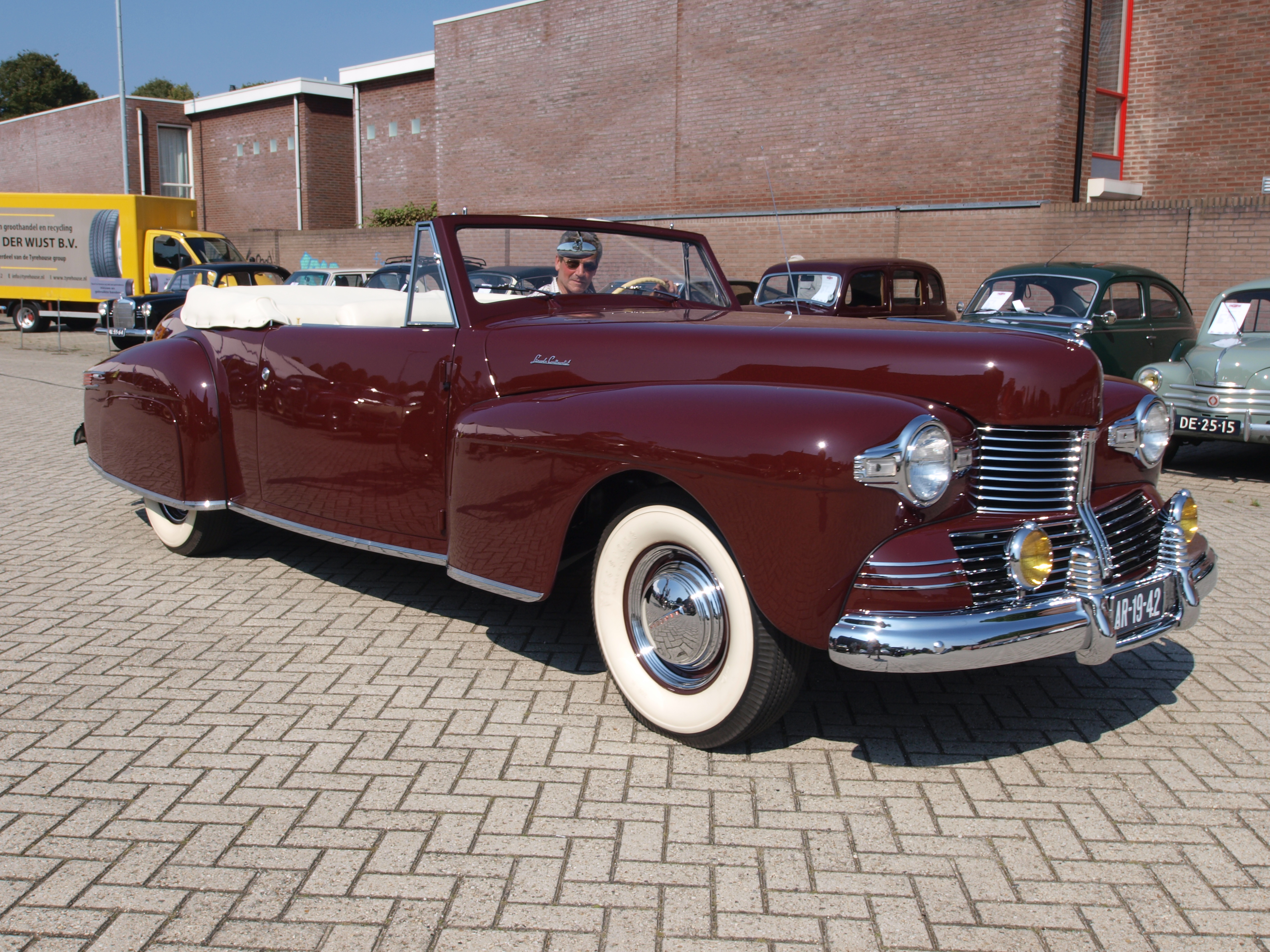 1942 Lincoln Continental Cabriolet, photographed at Zeeland, The Netherlands.